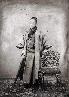 Shimazu Uzuhiko